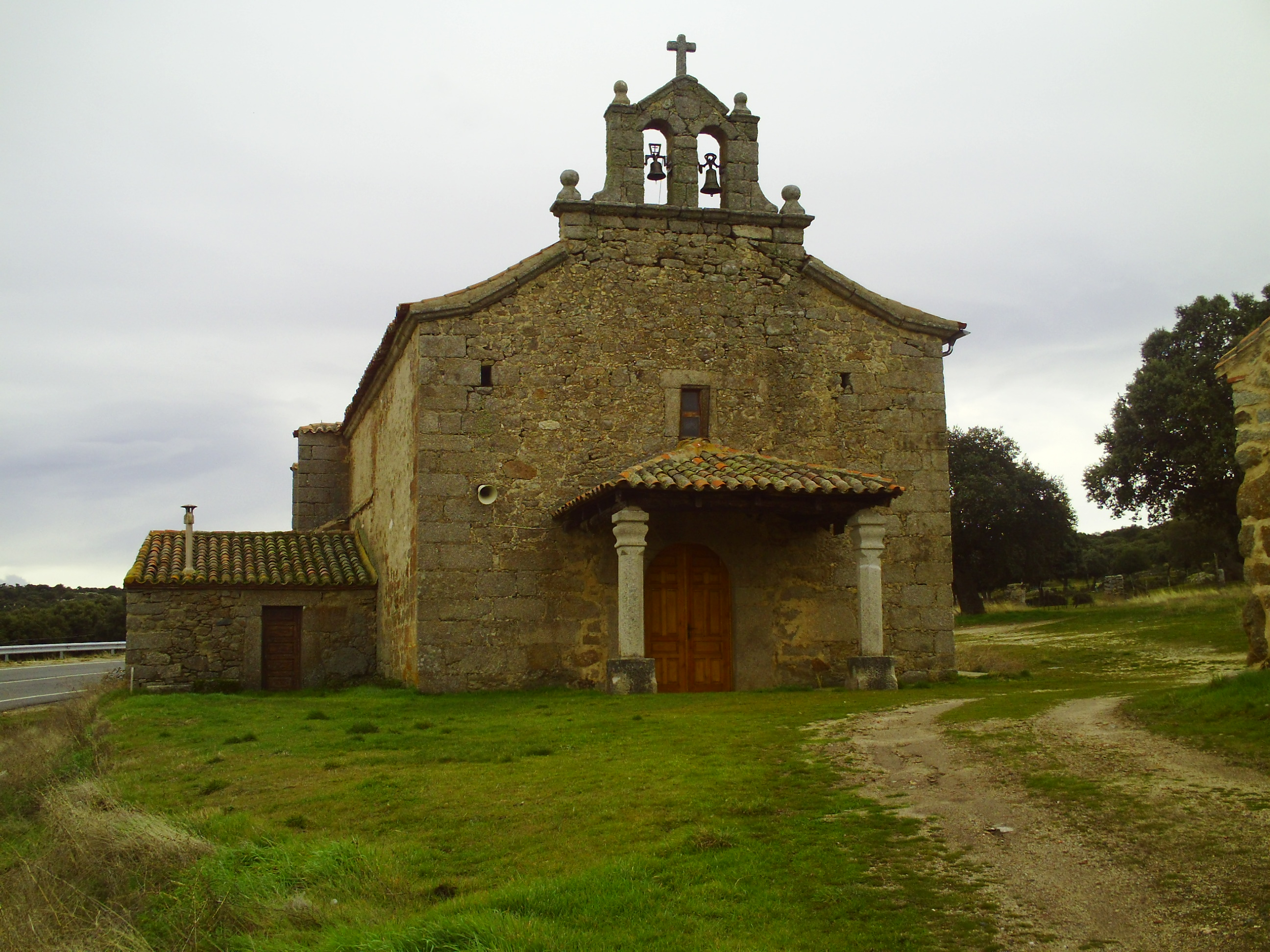 Hermitage of Our Lady of the Hawthorn (Gallegos de Sobrinos, Ávila, Spain)